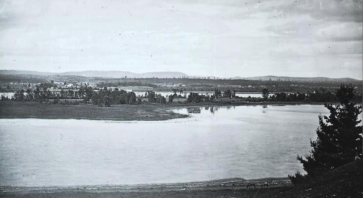 Photograph, glass lantern slide, Thurso, Ottawa River, ON, about 1870, Anonymous, Silver salts on glass - Wet collodion process - 8 x 10 cm